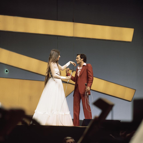 Al Bano & Romina Power at a rehearsal for the Eurovision Song Contest 1976.